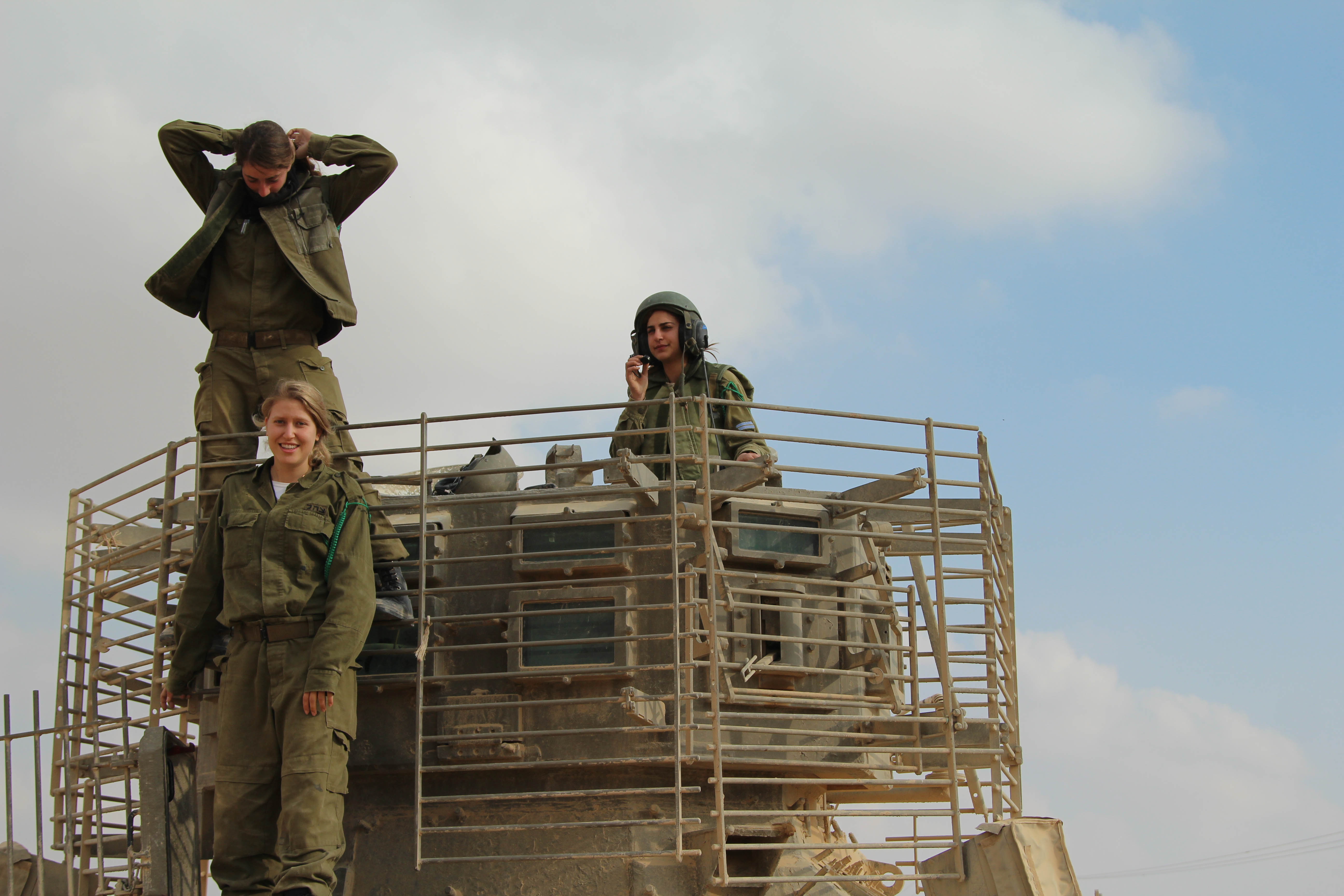 January 1, 2013 Female tank instructors of the School of Infantry Professions conducted a drill with their Nagmachon tanks and armed hummers on Tuesday. These instructors are always training together since they are responsible for teaching all infantry soldiers in different professions, whether it be operating tanks and/or mastering firearms. Photo by Cpl. Zev Marmorstein, IDF Spokesperson Unit The Israel Defense Forces Facebook • blog • Twitter